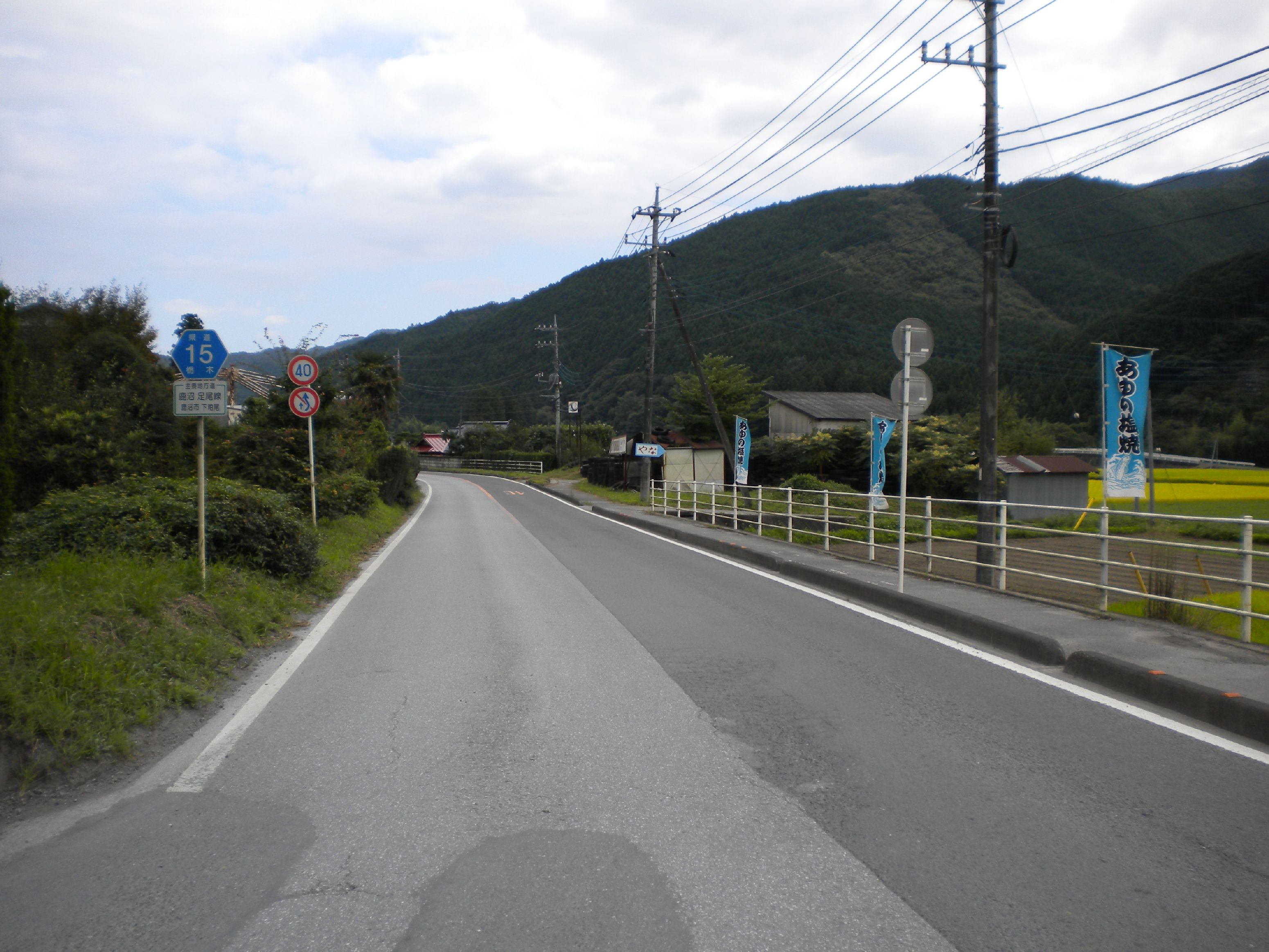 The Tochigi Prefectural Road Route 15 in Shimokasuo, Kanuma City